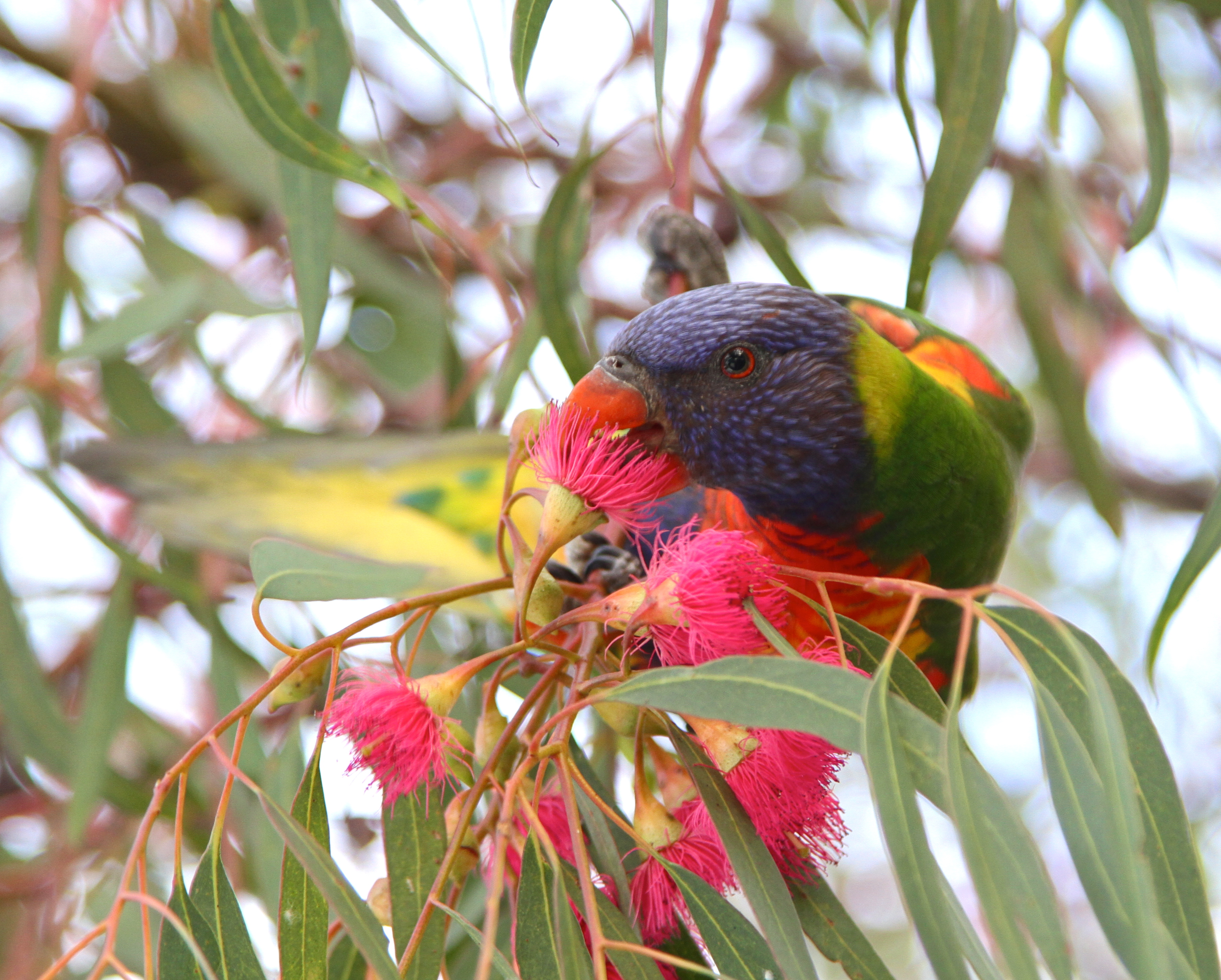 A Rainbow Lorikeet Trichoglossus moluccanus feeding at Adelaide Airport.